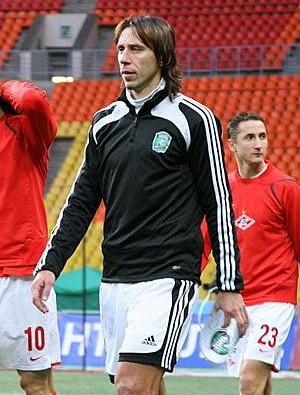 Valery Klimov